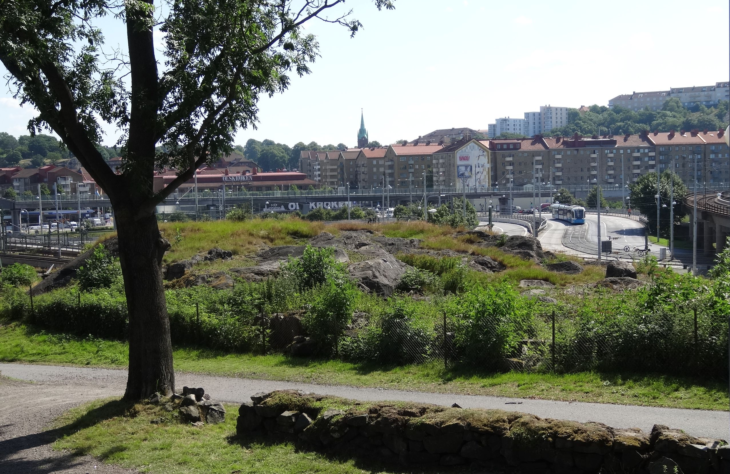 On the eastern side of the hill Gullberg in Gothenburg, Sweden, can the old fortress, destroyed in 1612, still be seen.